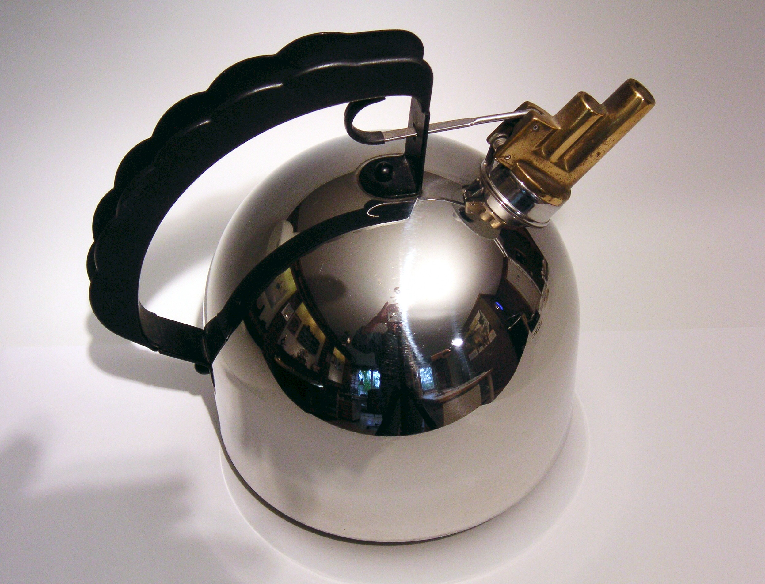 Flötenkessel, The Melodic Kettle, R. Sapper for ALESSI